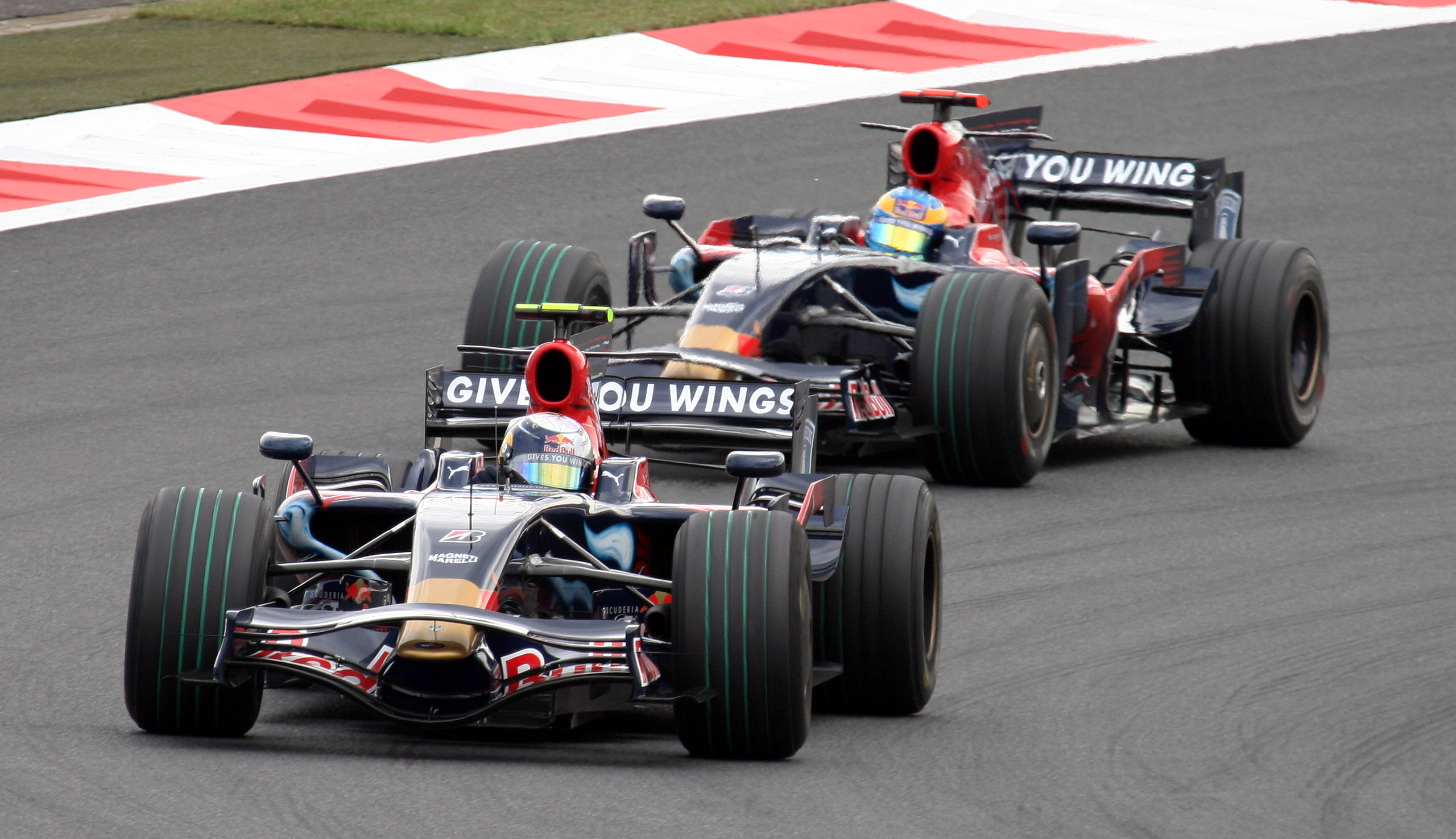 Formula One 2008 Rd.16 Japanese GP: Scuderia Toro Rosso duo (Sebastian Vettel and Sébastien Bourdais) at the free practice 1.